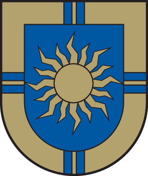 Coat of arms of Ķegums Municipality, Latvia.